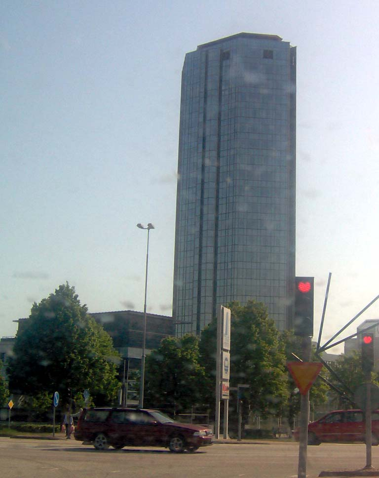 Trade Center, Halmstad, Sweden Source: taken by user may 28th 2005. Cropped and edited by User:Daedalus